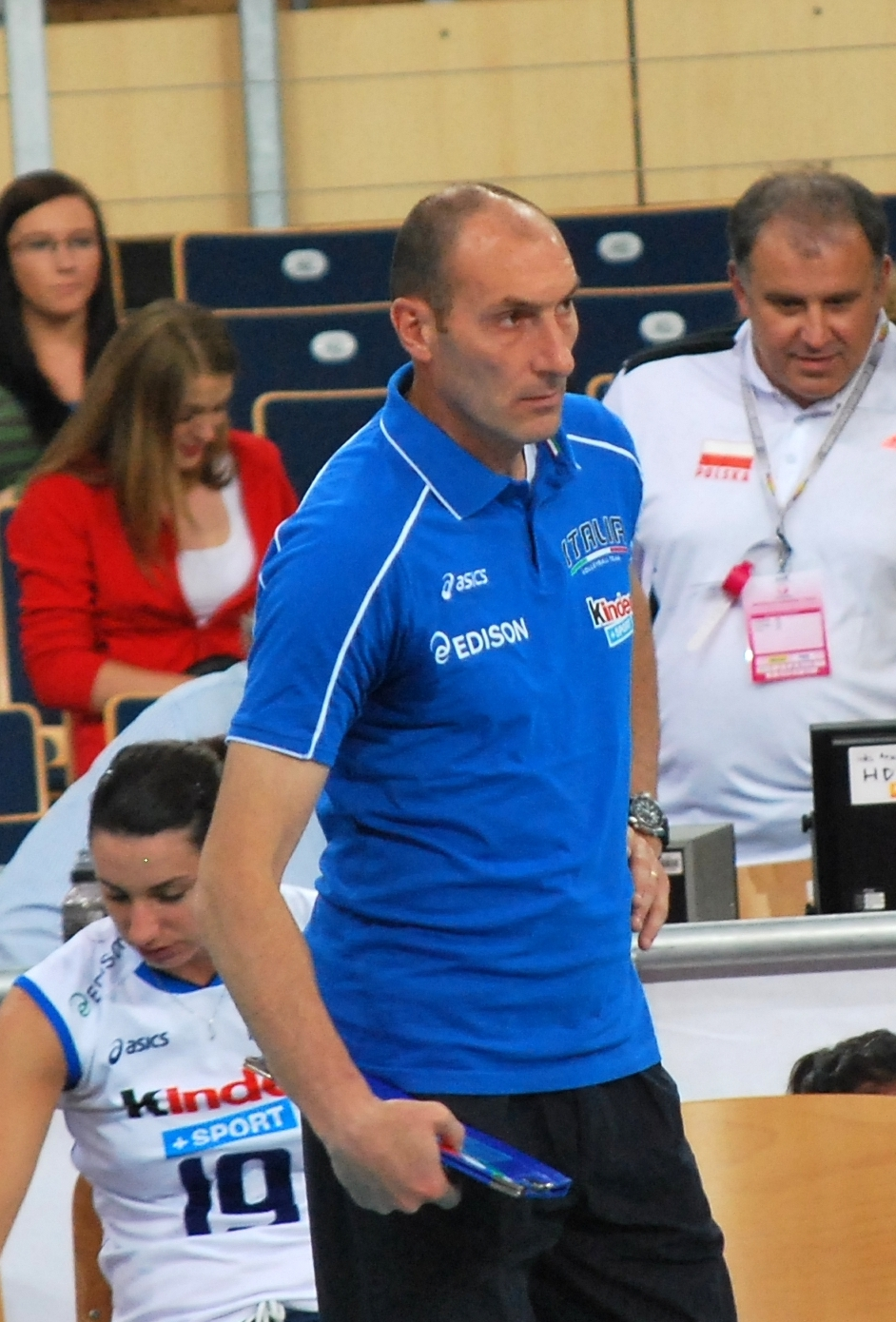 Marco Bracci, volleyball coach from Italy